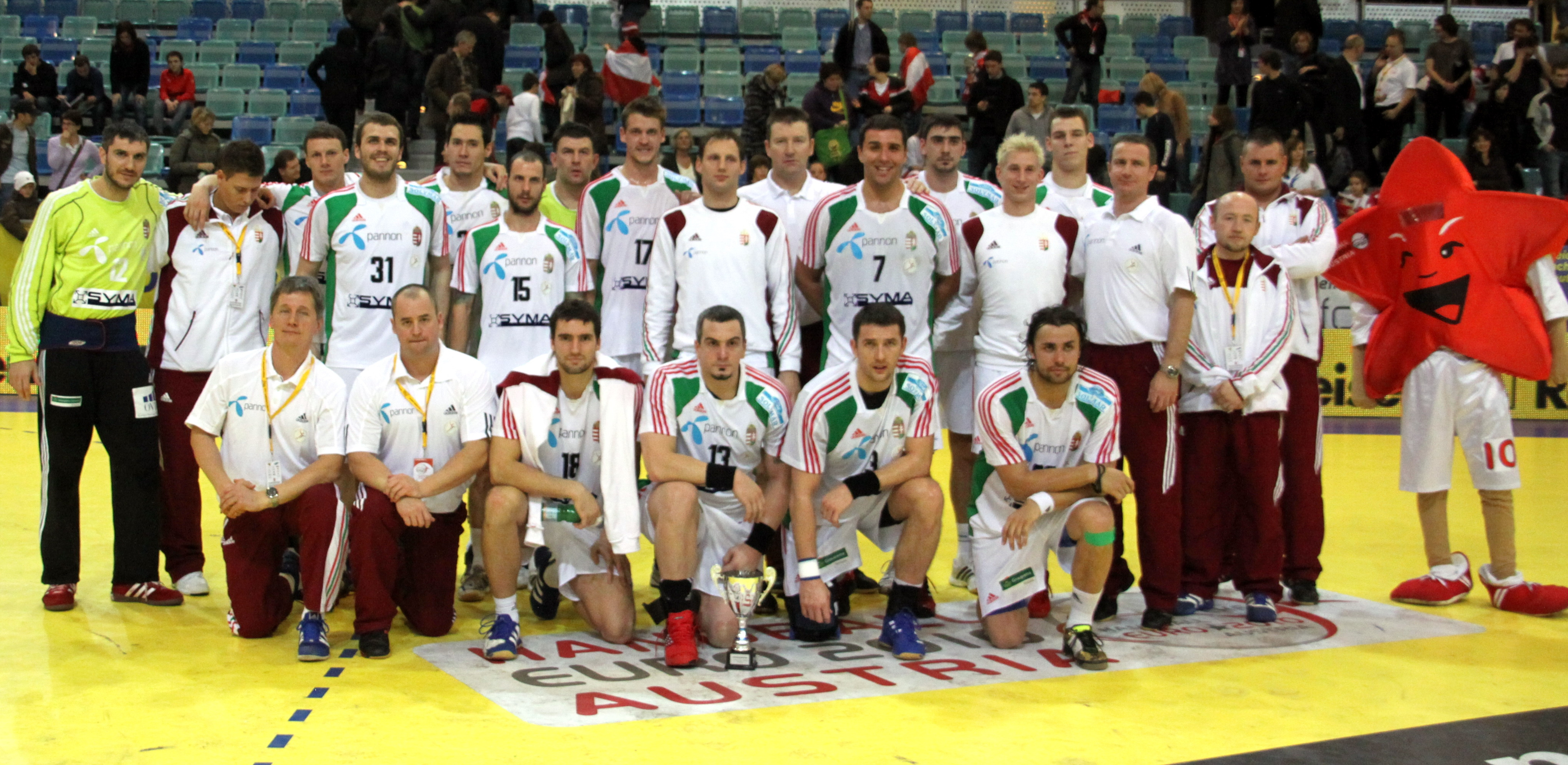 Hungary national handball team hu: Magyar férfi kézilabda-válogatott